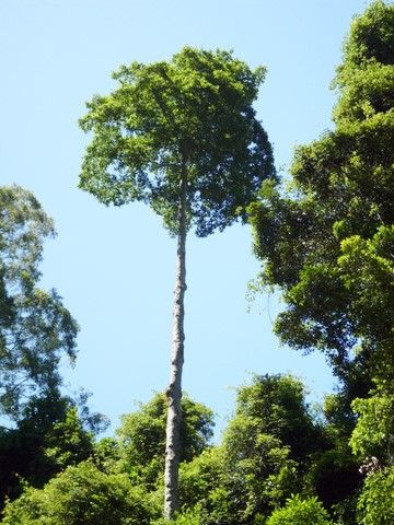 Elaeocarpus obovatus at Gap Creek, Watagan Hills, Australia